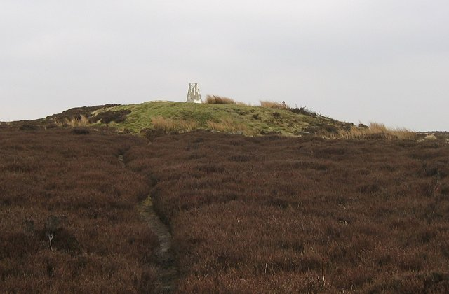 Round Hill. The highest point on Urra Moor and the North Yorkshire Moors is marked by this tumulus. The surrounding land is flat and heather covered.